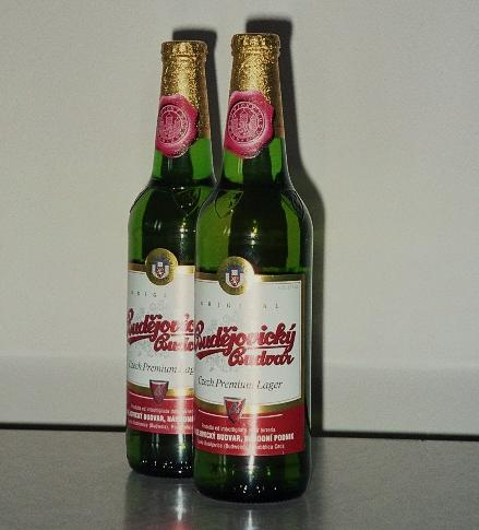 Two bottles of Budějovický Budvar (Budweiser Budvar)